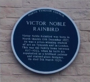 Blue plaque on 71 West Percy Street, North Shields, Tyne and Wear